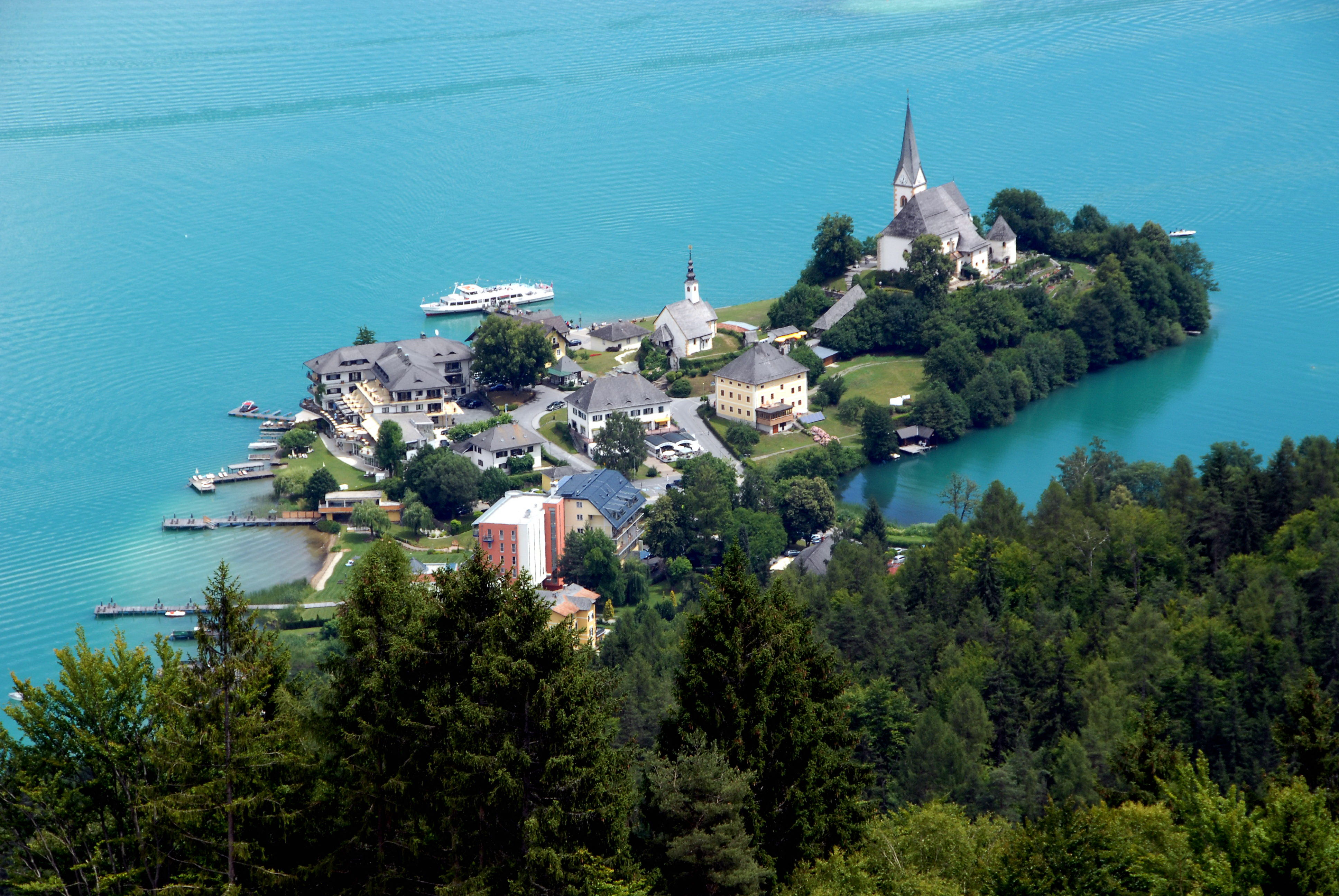 View from the look-out on top of the Pyramidenkogel at the peninsula of Maria Wörth, municipality Maria Woerth, district Klagenfurt Land, Carinthia / Austria / EU